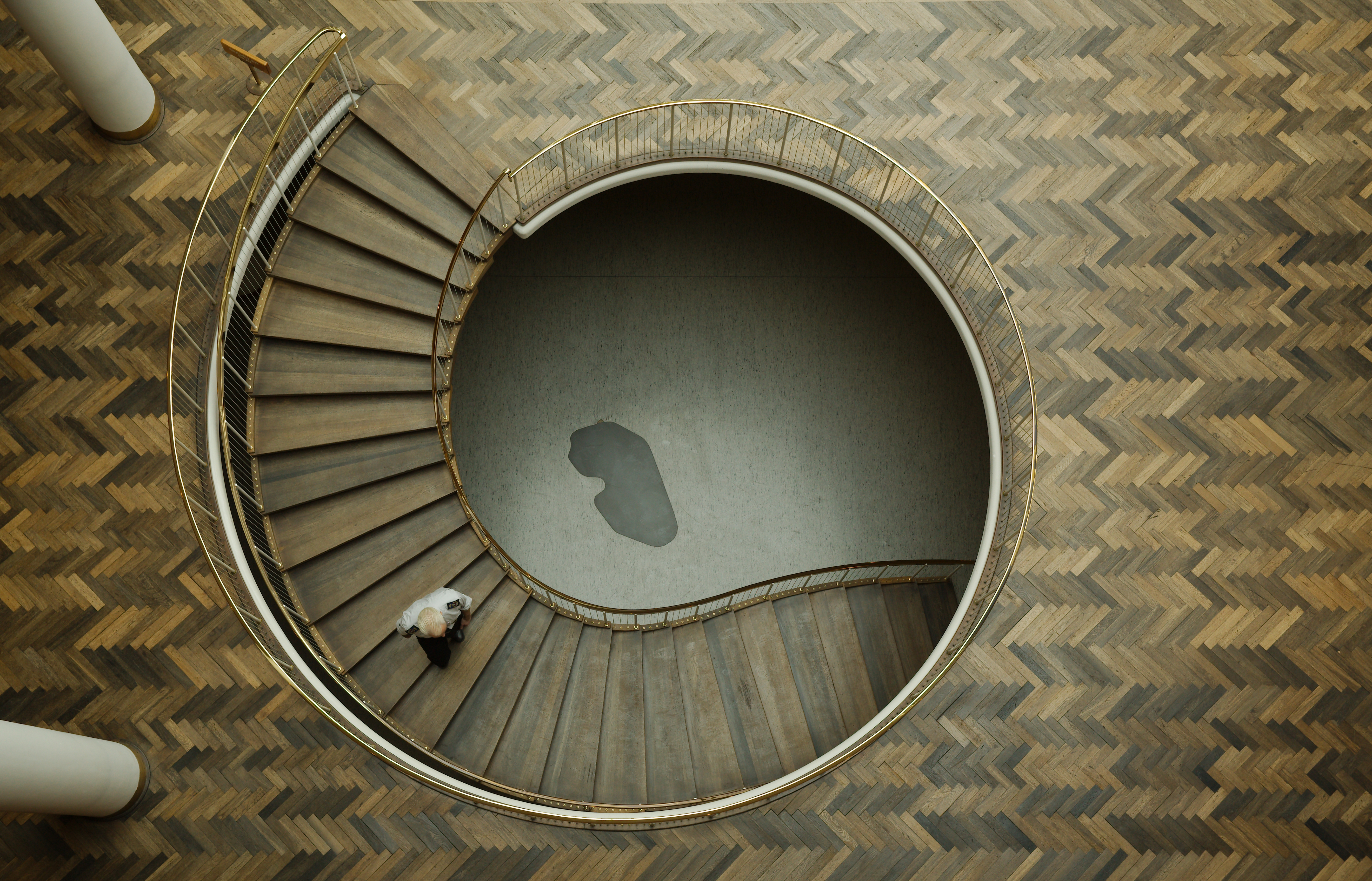 The three foundation stones of Aarhus City Hall were laid on September 24, 1938. They are located below the polished, dark grey kidney-shaped capstone seen at the bottom of the stairwell. The capstone was used as the reference point for height adjustment during the entire building period.